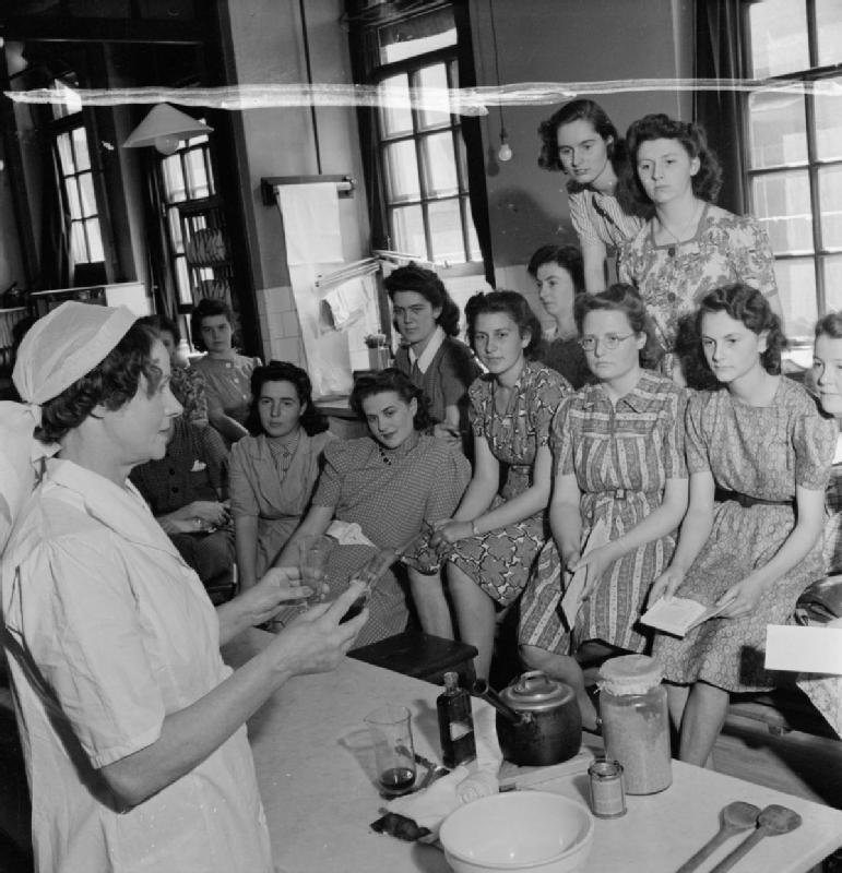 Schoolgirl Into Nurse- Medical Training in Britain, 1942 Girls in their last year of school learn 'the delicate art of poulticing' as part of their pre-nursing training. The photograph shows a group of young women listening intently to a nurse as she explains poultices to them in the school kitchen.